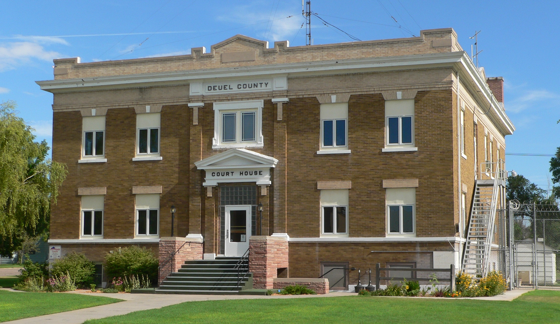 Deuel County Courthouse in Chappell, Nebraska; seen from the southeast. The Classical Revival building was constructed in 1915. It is listed in the National Register of Historic Places.